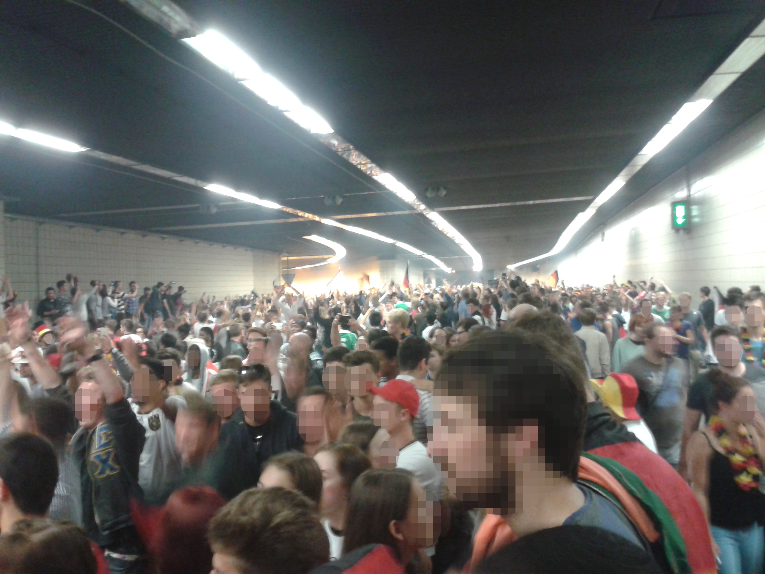 Celebration of the victory of the german team of the football worldcup 2014 in the Tunnel Wilhelminenstraße, Darmstadt, Germany.